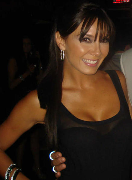 Gutiérrez in Miami, United States